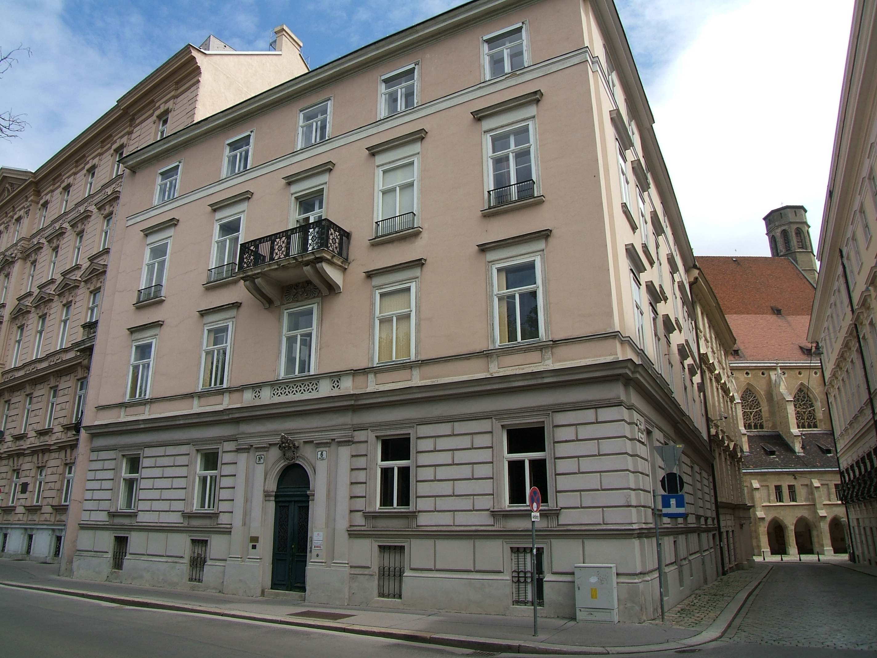 Palais Montenuovo in Vienna 1st district Löwelstraße 6